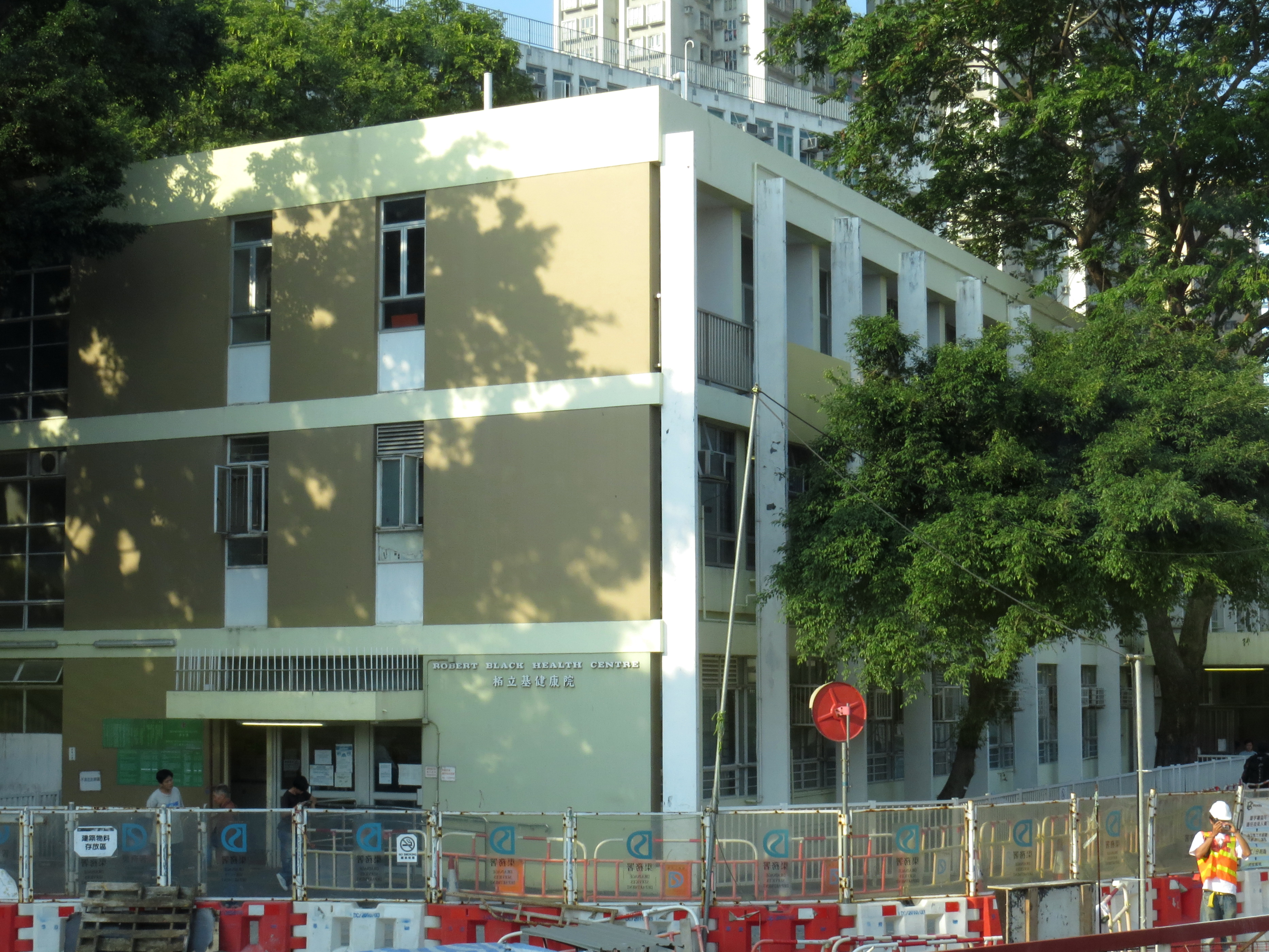 Robert Black Health Centre, 600 Prince Edward Road East, San Po Kong, Kowloon, Hong Kong.